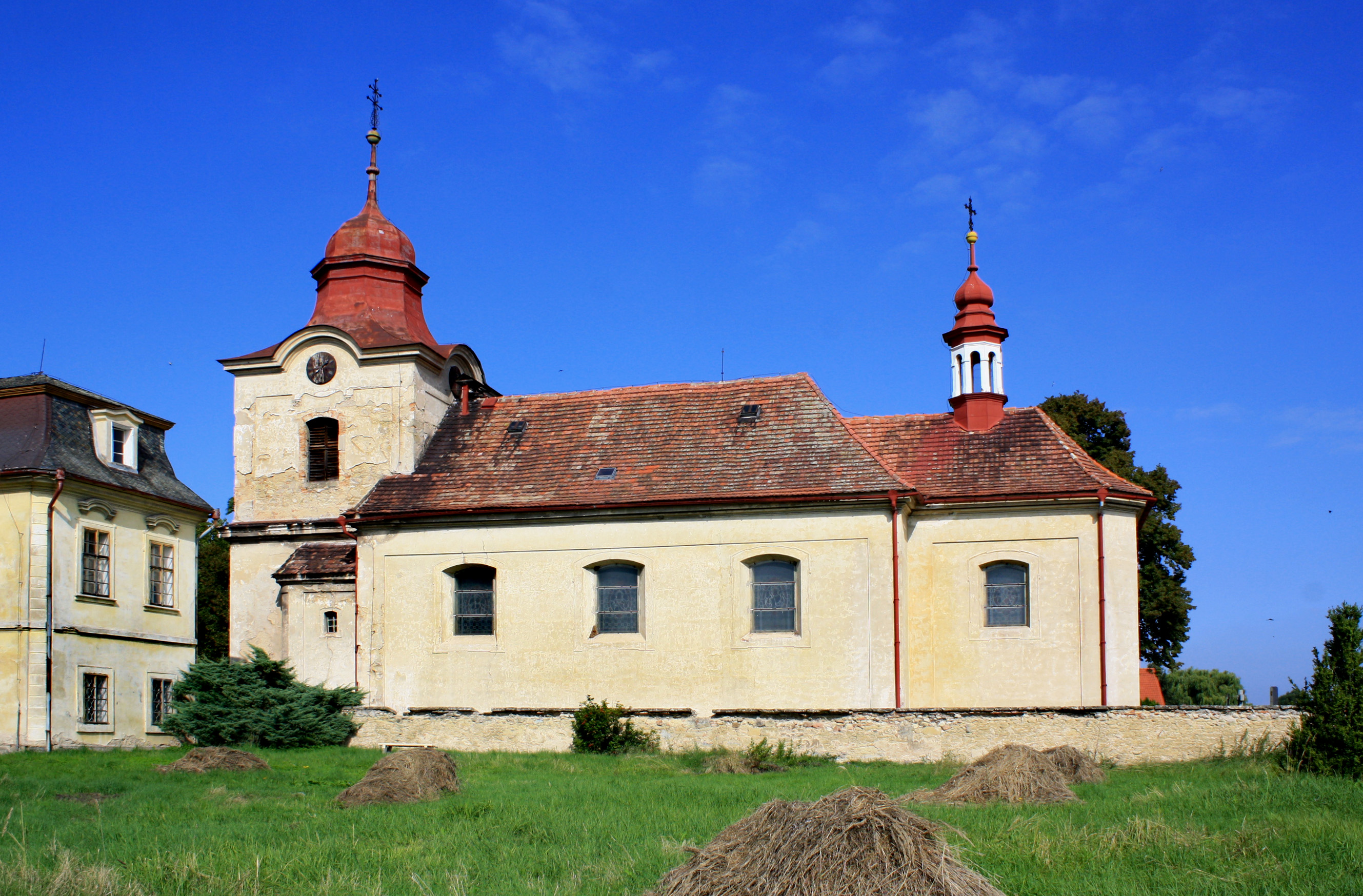 Church in Luštěnice, Czech Republic